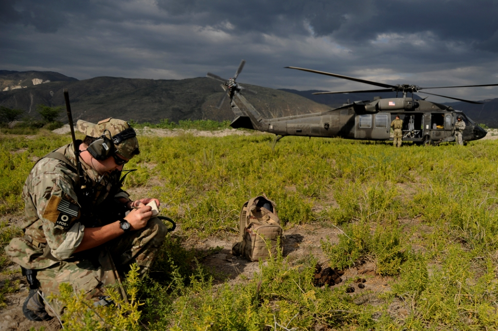 A U.S. Air Force combat controller from the 21st Special Tactics Squadron, Hurlburt Field, Fla., assesses a potential relief supply air delivery drop zone during Operation Unified Response in Port au Prince, Haiti, Jan. 19, 2010. The U.S. Department of Defense contingent is part of a larger national and international relief effort led by the U.S. Agency for International Development in response to the Jan. 12, 2010, 7.0 earthquake here.